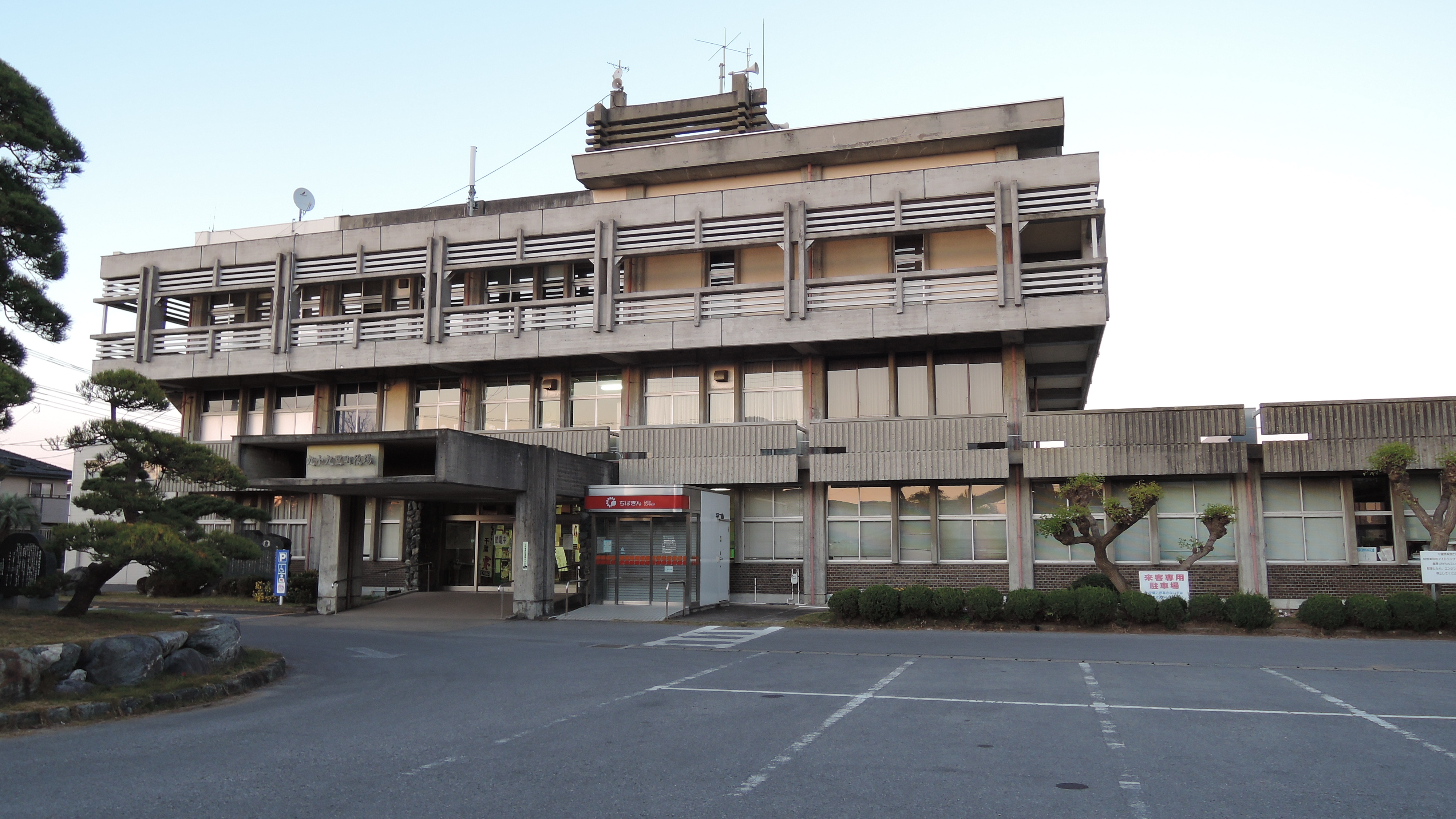 Kujukuri town hall,Chiba prefecture,Japan